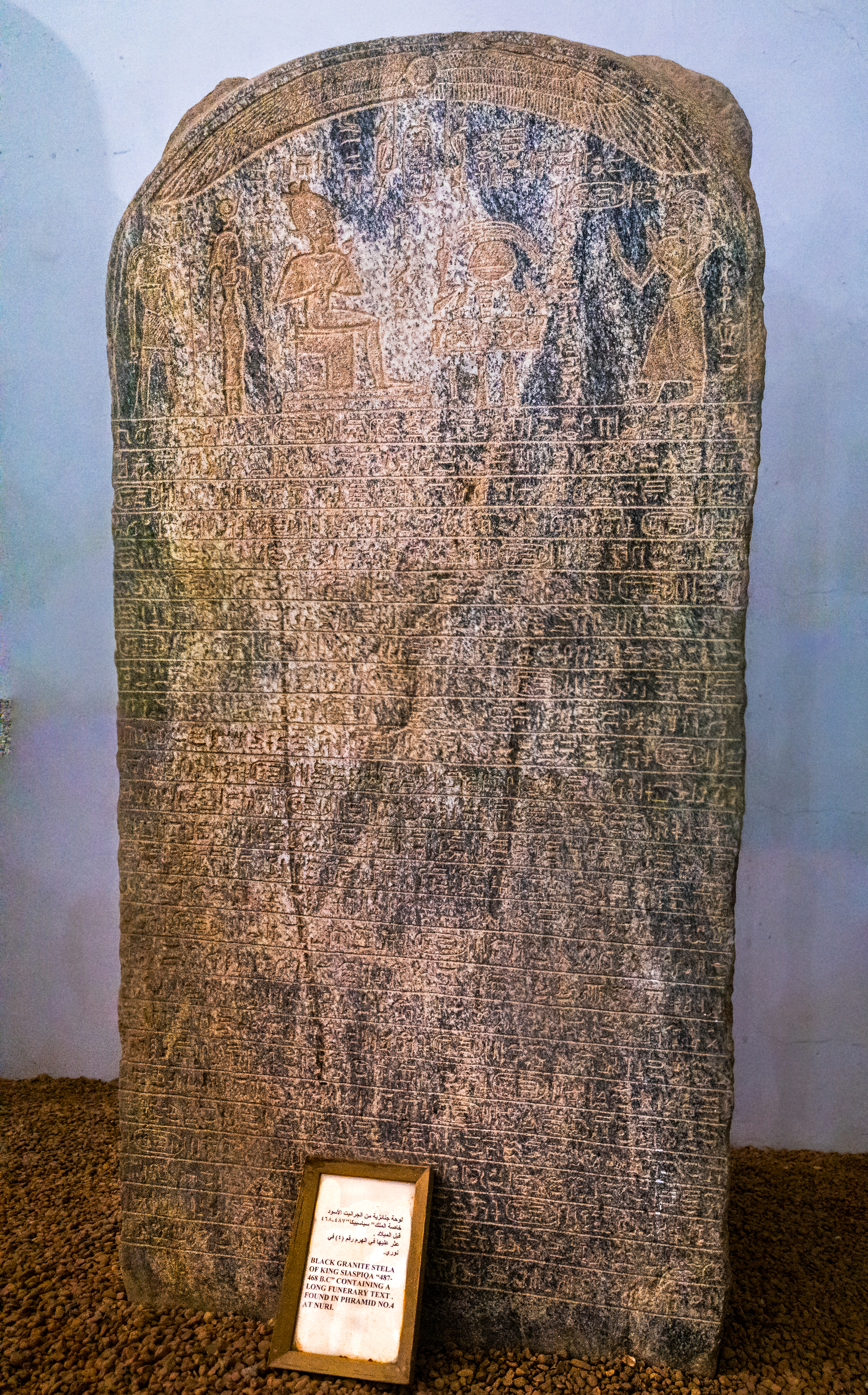 Found in pyramid No. 4 at Nuri, exposed in Sudan National Musuem in Khartoum